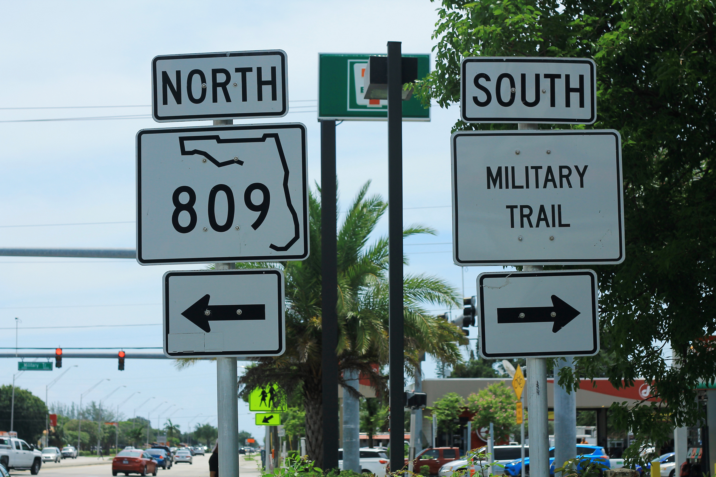 FL809 North - Military Trail South Signs - FL802